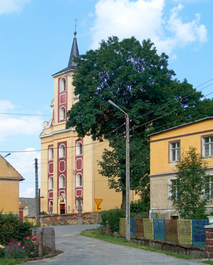 Mary Magdalene church in Mąkolno, Poland